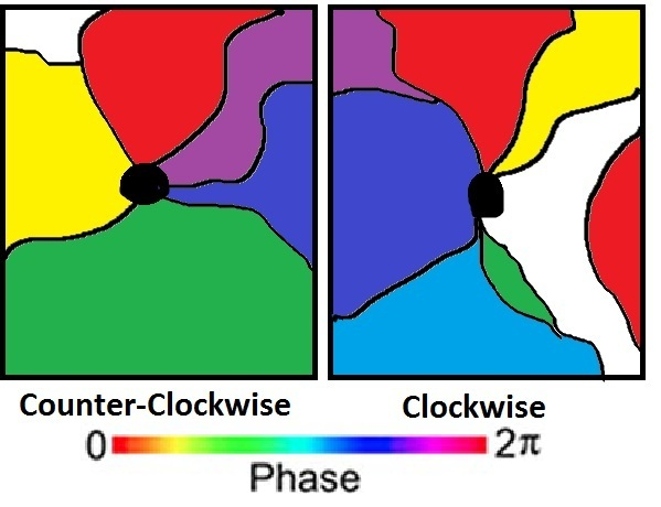 Representation of point singularities in the Visual Cortex. Each color represents a different radial phase corresponding to an orientation column.